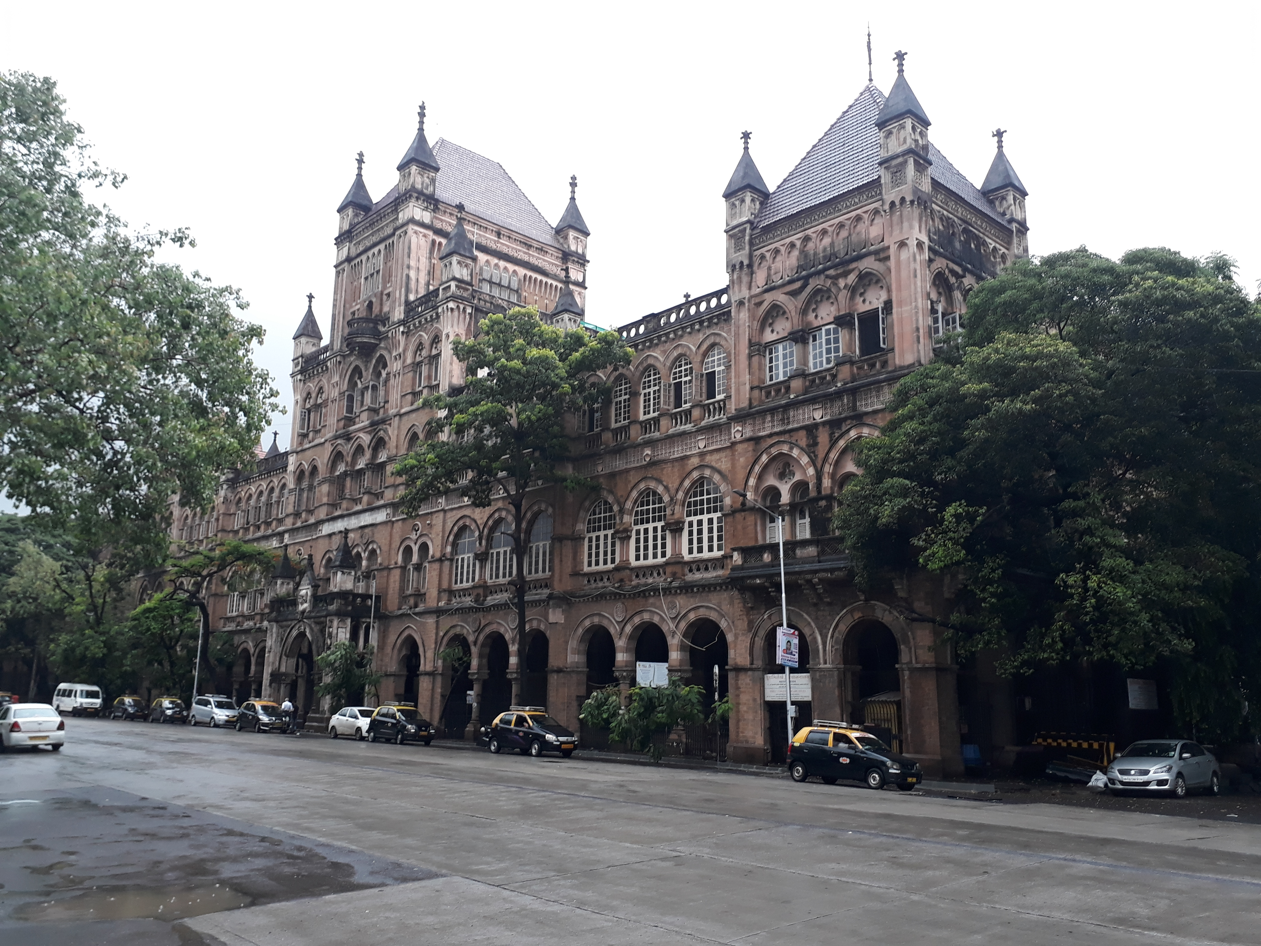 Elphinstone College, One of the oldest College in Mumbai